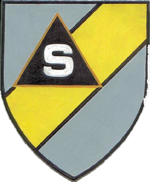 Emblem of the USAF 401st Bombardment Group